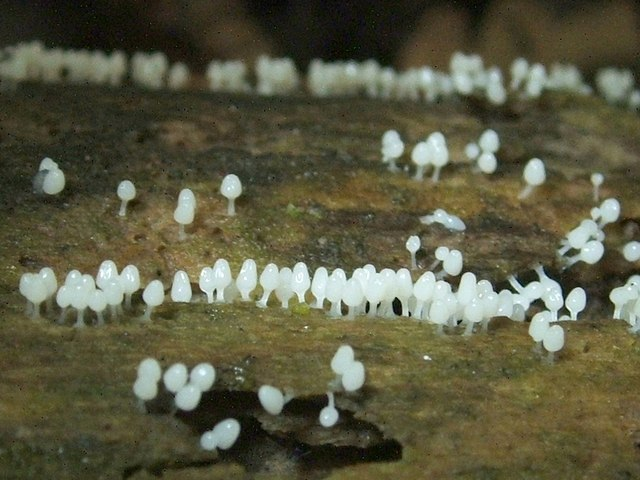 Stalked slime mould fruiting bodies This stalked form is the most common type of spore-bearing structure among slime moulds. There would originally have been a single slime mould, in the form of a plasmodium (a slow-moving gelatinous mass of protoplasm), on or within this piece of wood; on fruiting, it divided up into many small units, each of which developed into one of these stalked sporangia (the plural of sporangium, the name for an individual spore-bearing structure); the spores develop in the upper part. In the species shown here, each of the sporangia was 2-3mm tall. At this stage, where the sporangia are still developing, and are gelatinous in consistency, very many species look greatly alike. Identification to species is only possible when the sporangia are mature, at which time they are no longer gelatinous, and they may be quite different in colour; they would, by then, have developed distinctive internal features that would allow the species to be identified after careful microscopic examination.